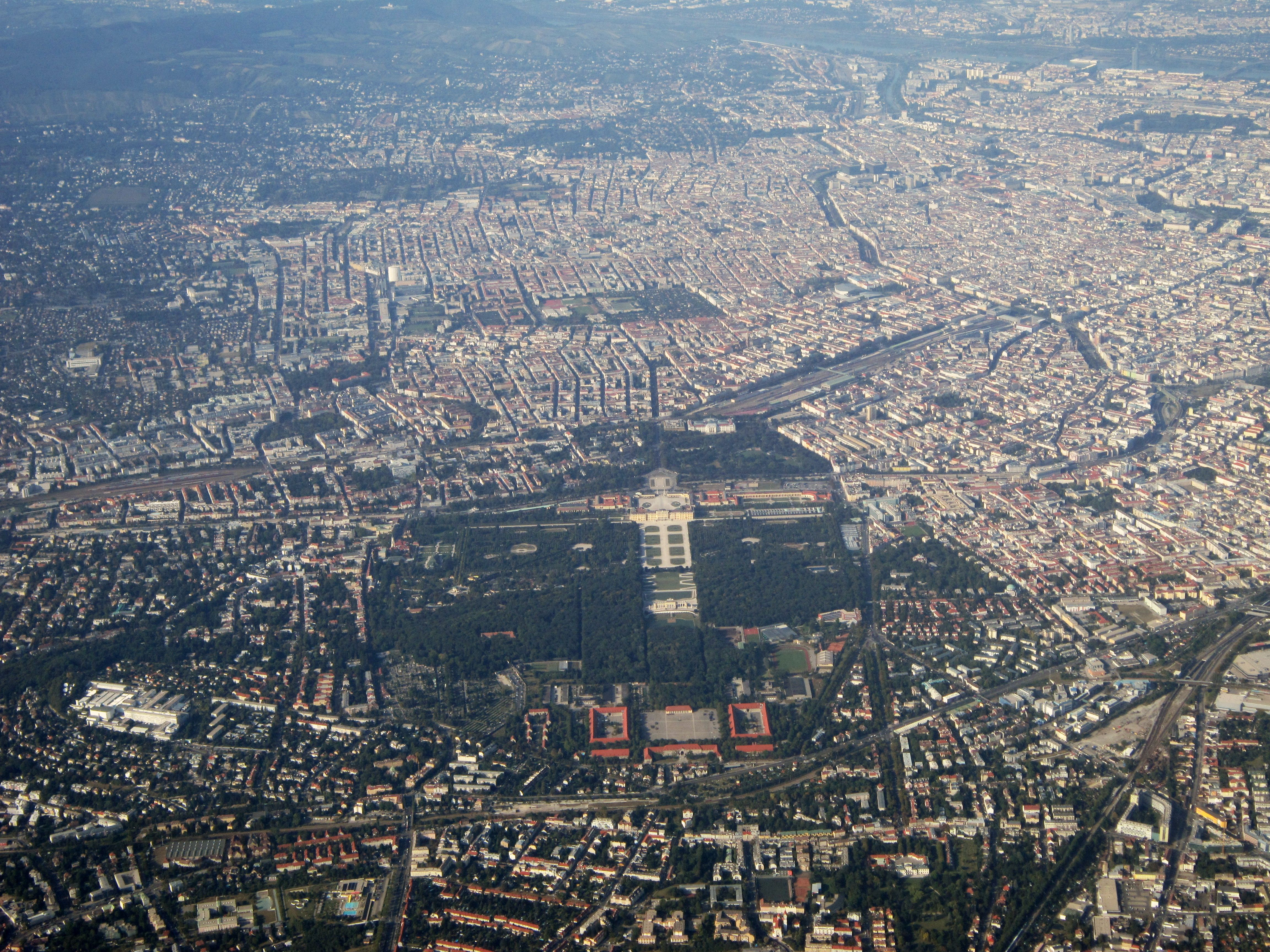 Schönbrunn Palace and Gardens, with ORF headquarters at left-hand side, and Vienna West railway station behind the gardens.